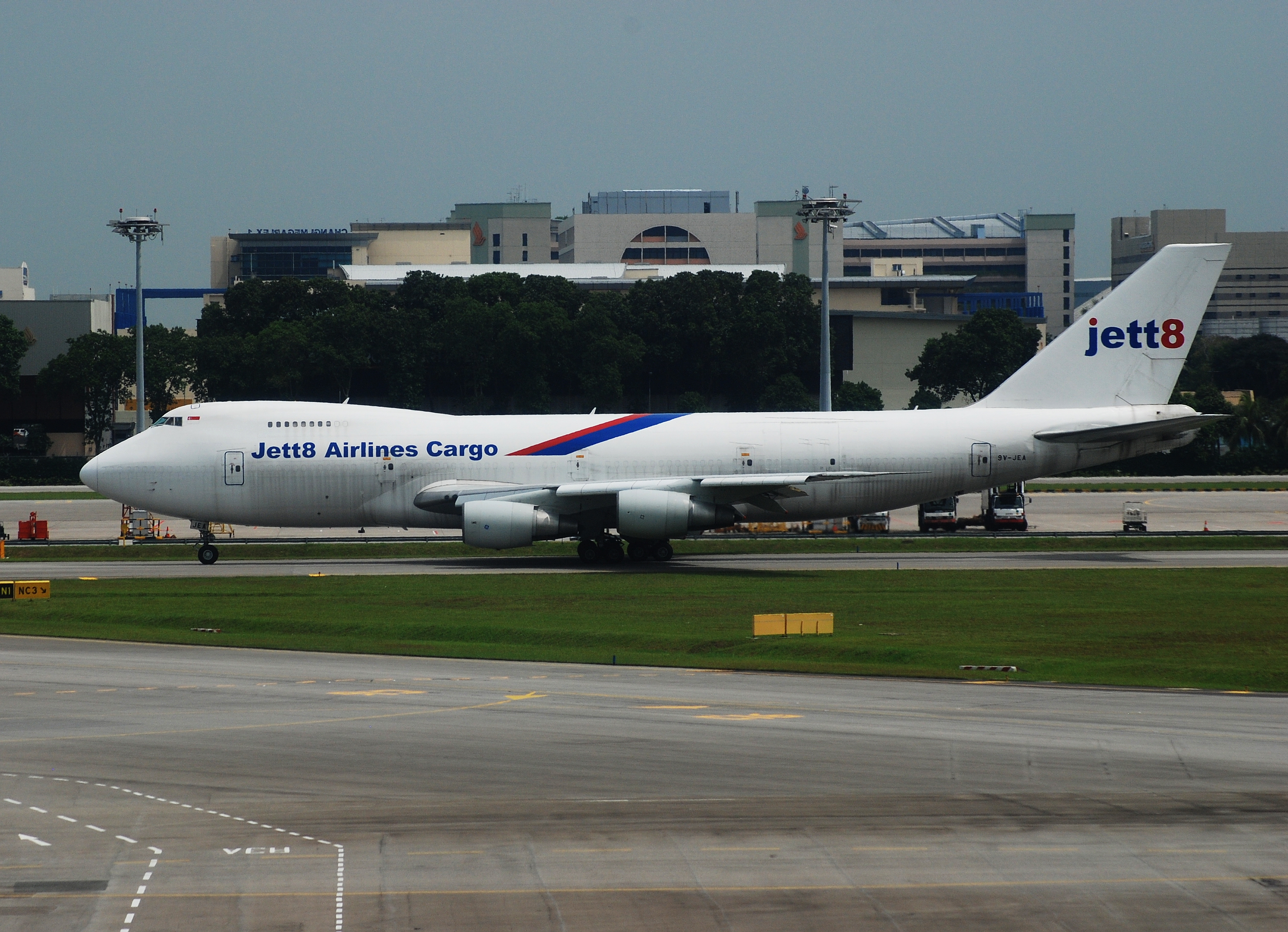 Jett8 Airlines Cargo Boeing 747-200F (9V-JEA) taxiing on NC3 at Singapore Changi Airport.